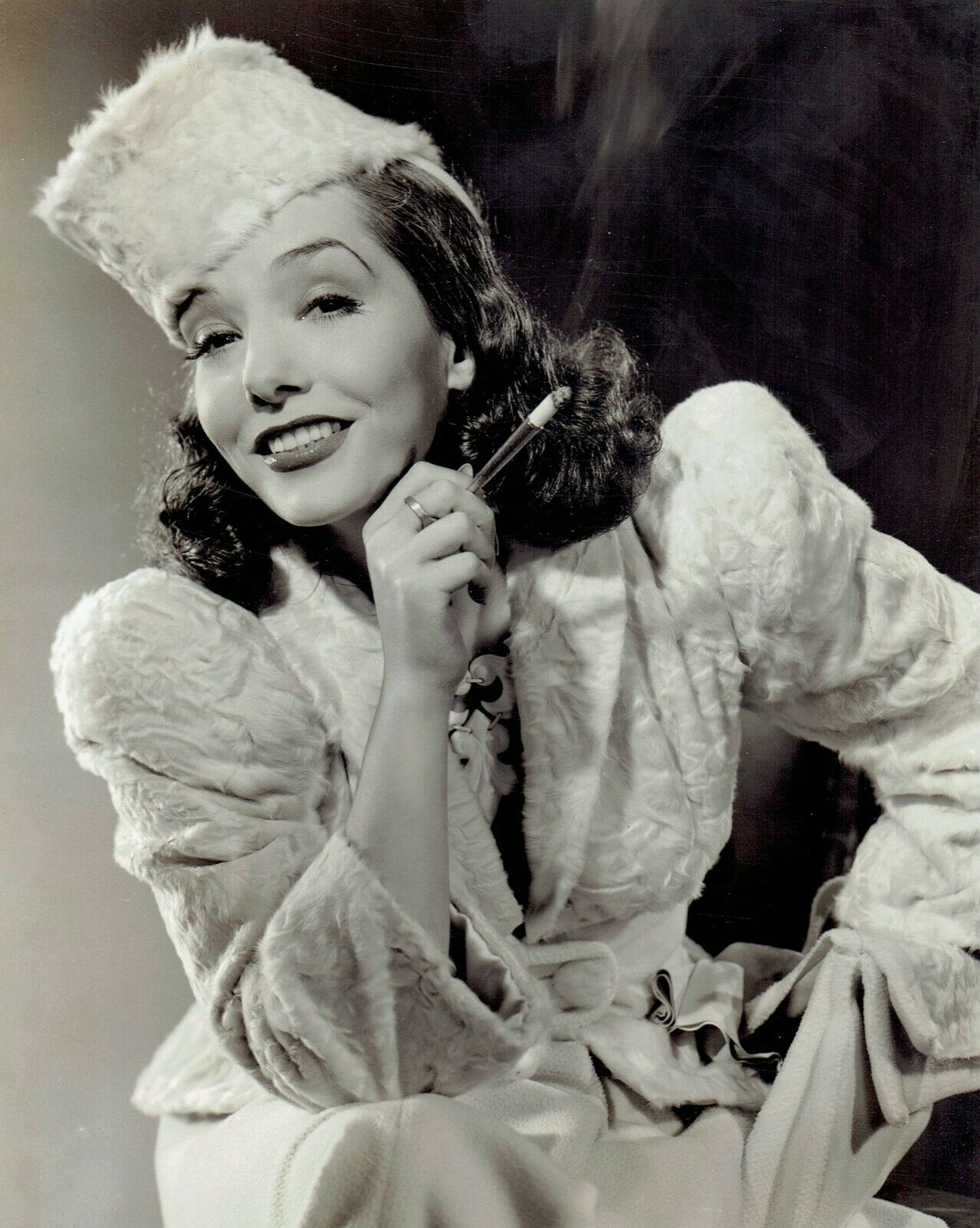 A publicity photo of Mexican actress Lupe Vélez from 1941.